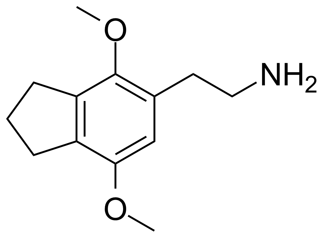 Chemical structure of 2C-G-3-Chemdraw